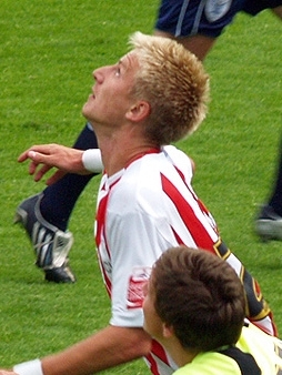 Byron Webster playing for Bury against Oldham Athletic at Gigg Lane, Bury on 18 July 2009